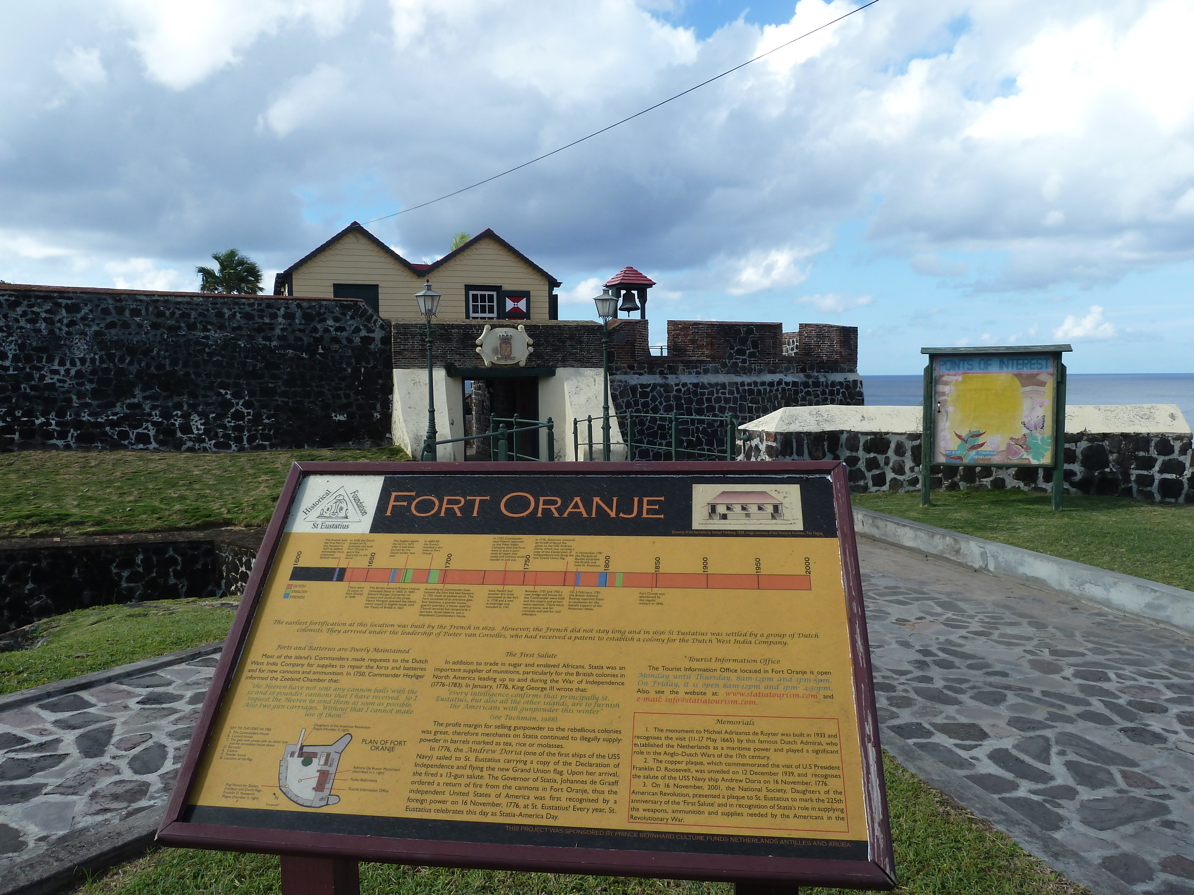 Fort Oranje, including sign of historical timeline, Oranjestad, Statia, Jan 2012.